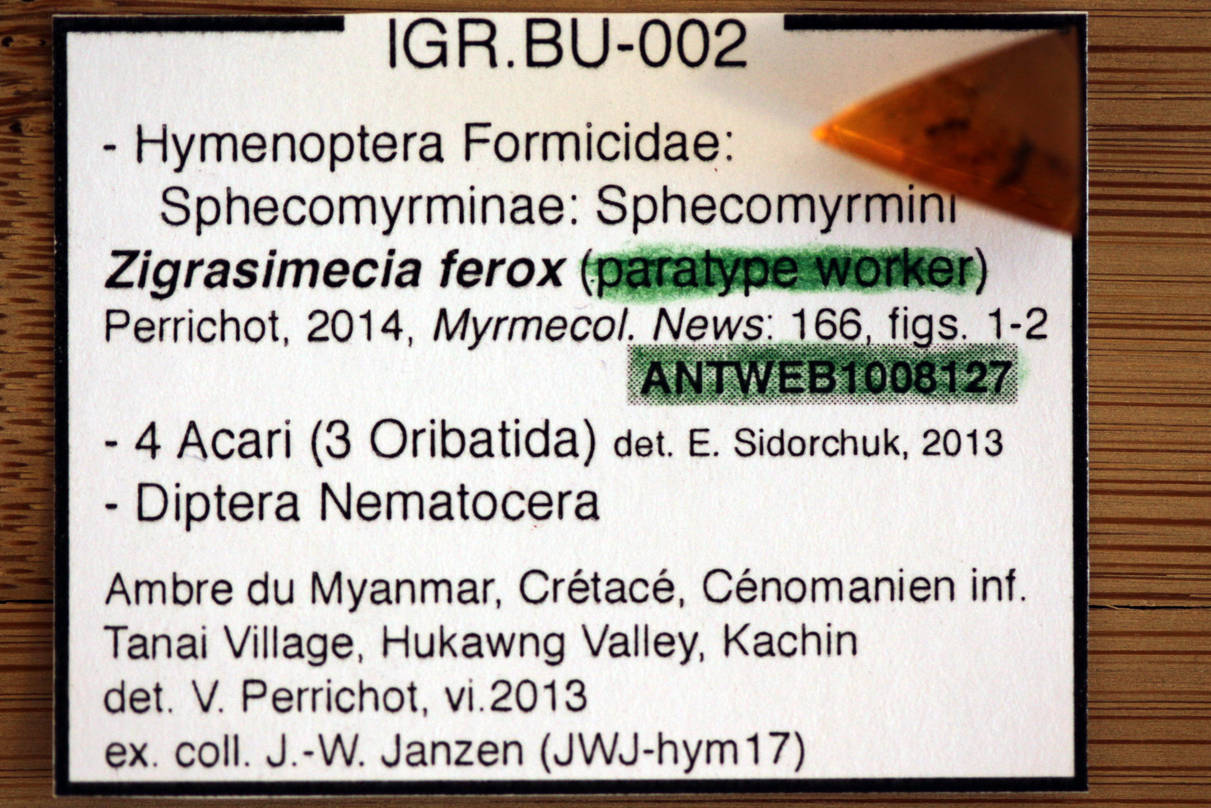 View of the Zigrasimecia ferox paratype JWJ-Bu17 museum tag plus amber block. Burmese amber, Cenomanian (99mya), Hukawng Valley, Myanmar